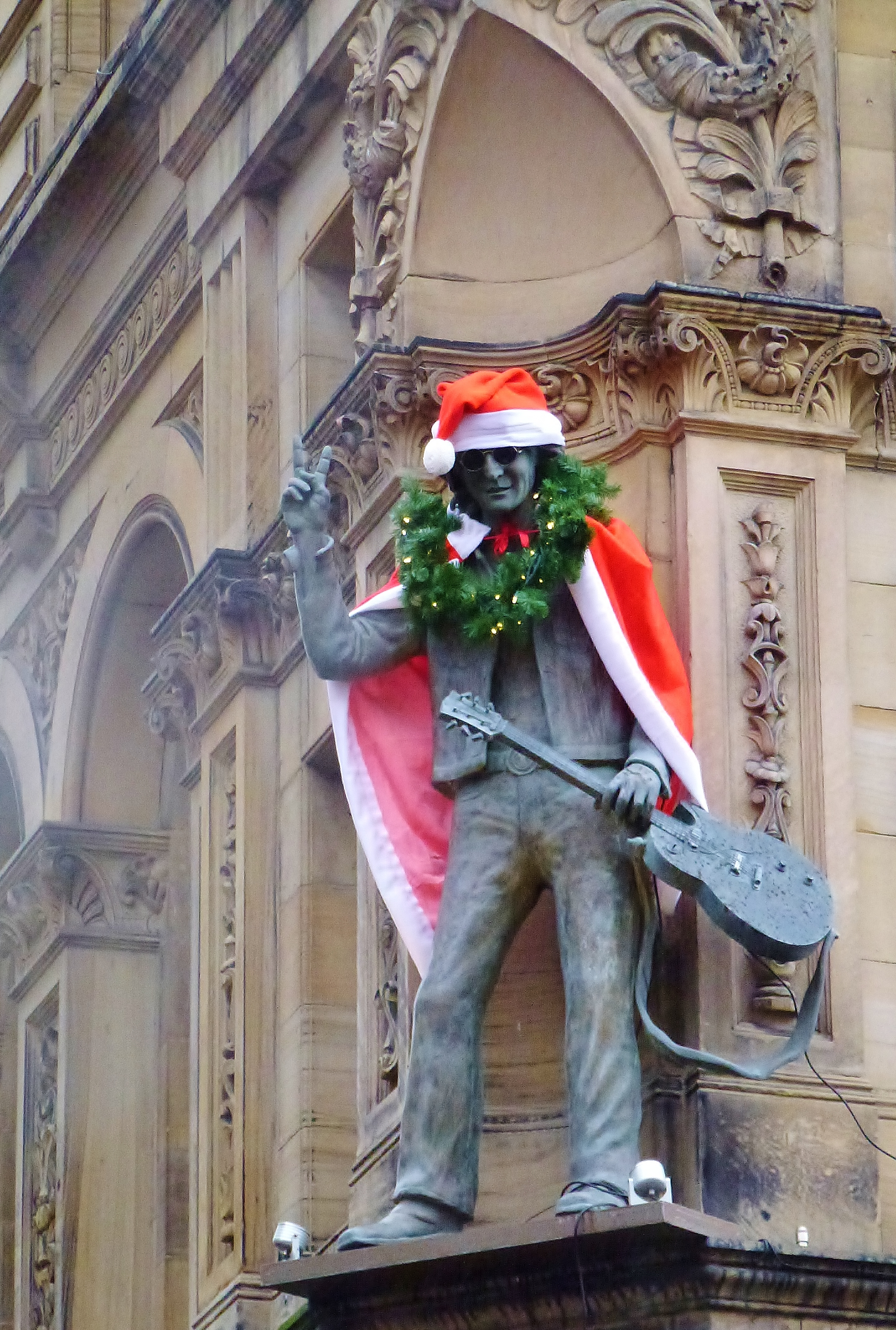 Looking Festive at the Hard Day's Night Hotel in Liverpool.